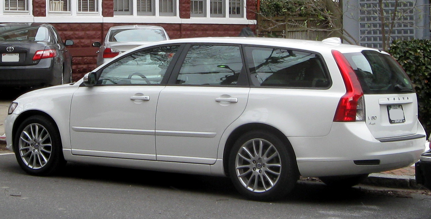 2008-2010 Volvo V50 photographed in Annapolis, Maryland, USA.